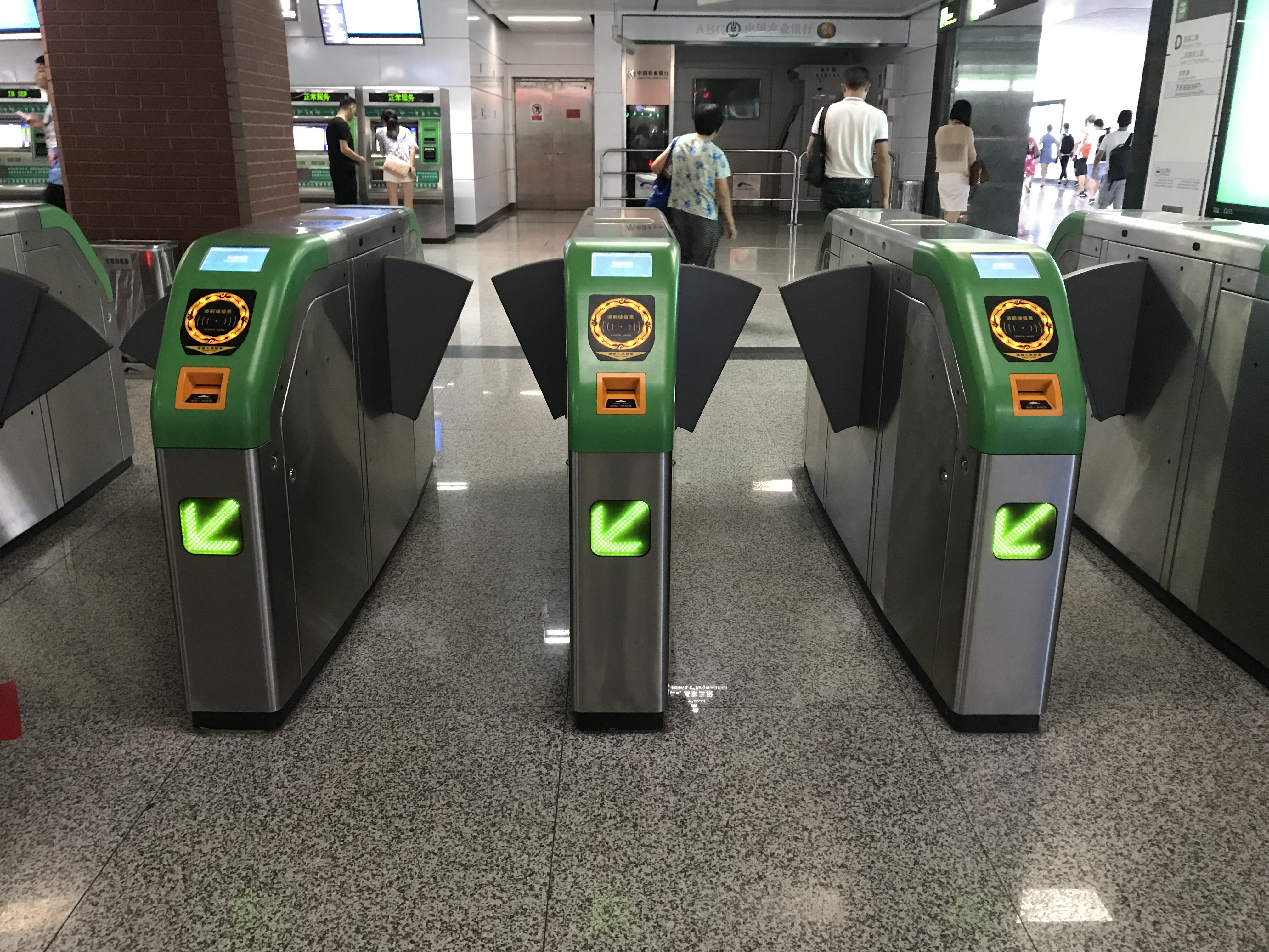 Turnstile in Shuangqiao Road Station, Chengdu Metro